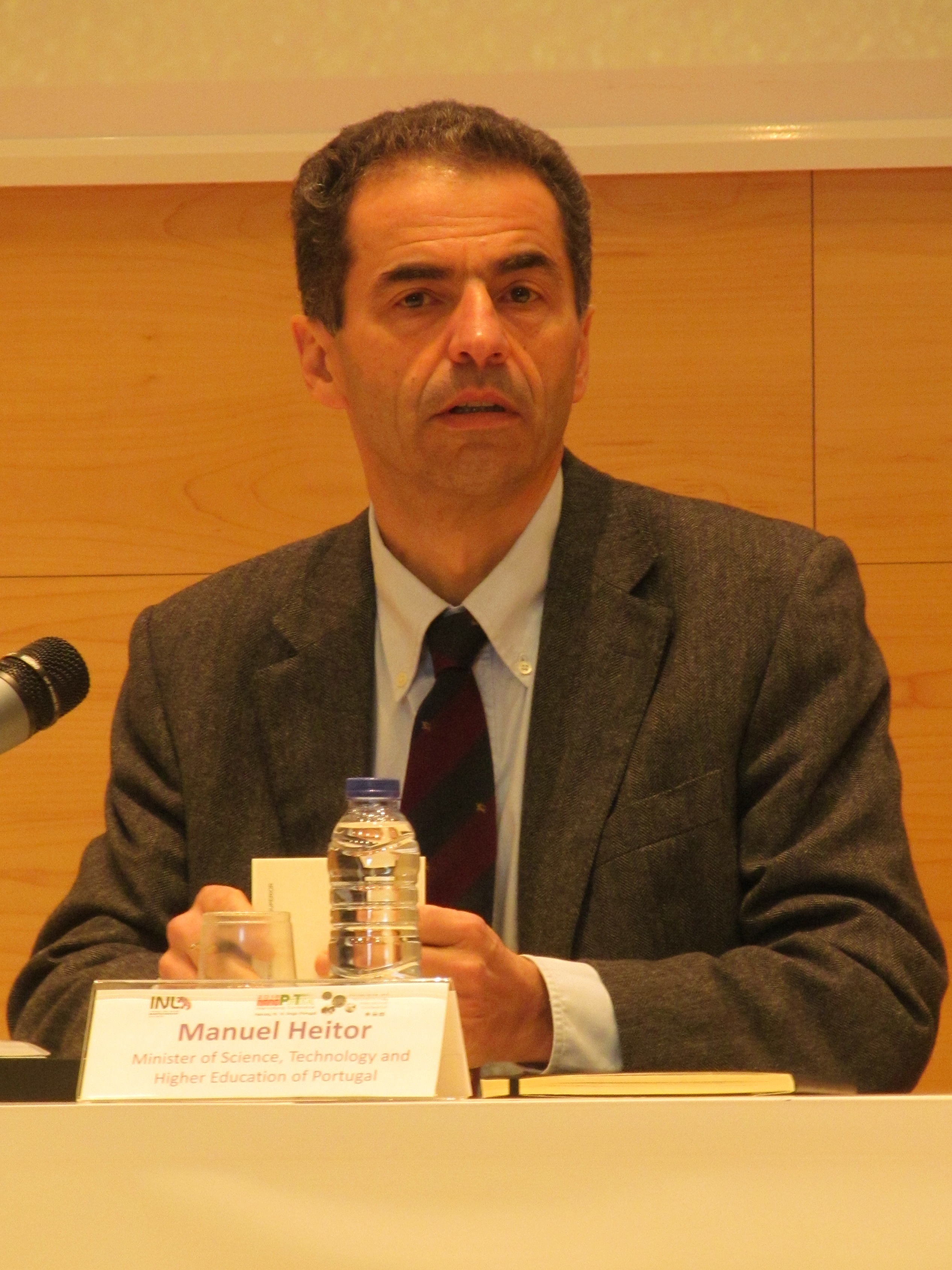 Manuel Heitor, minister of Science, Technology and Higher Education of Portugal, opening session of NanoPT 2016.